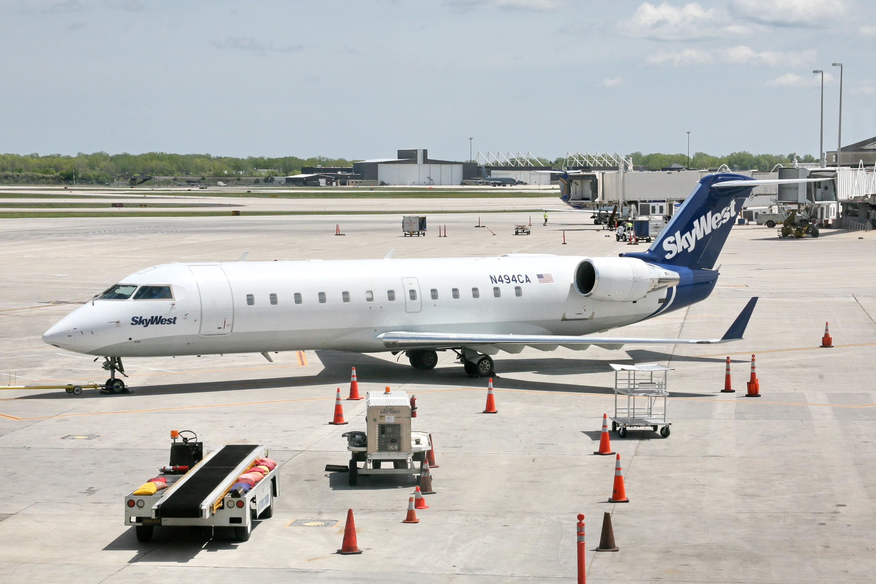 SkyWest Airlines, Inc. is one of two airlines owned by SkyWest, Inc. - the other being Atlantic Southeast Airlines. It is a North American regional airline headquartered in St. George, Utah, flying to 159 cities in 41 U.S. states, 6 Canadian provinces, and Mexico City. The airline serves as a feeder airline, operating under contract with various major carriers. It flies as United Express on behalf of United Airlines, as Delta Connection on behalf of Delta Air Lines and as SkyWest Airlines in partnership with AirTran Airways.